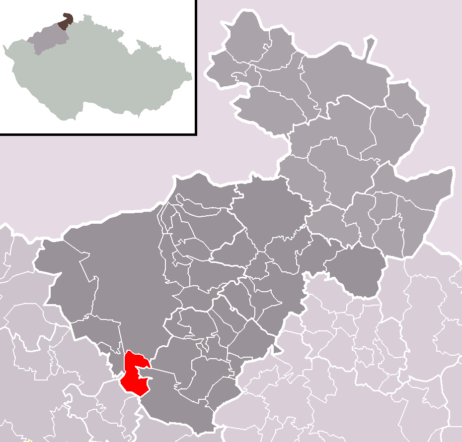 Location of Těchlovice municipality within Děčín District and administrative area of Děčín as a Municipality with Extended Competence.